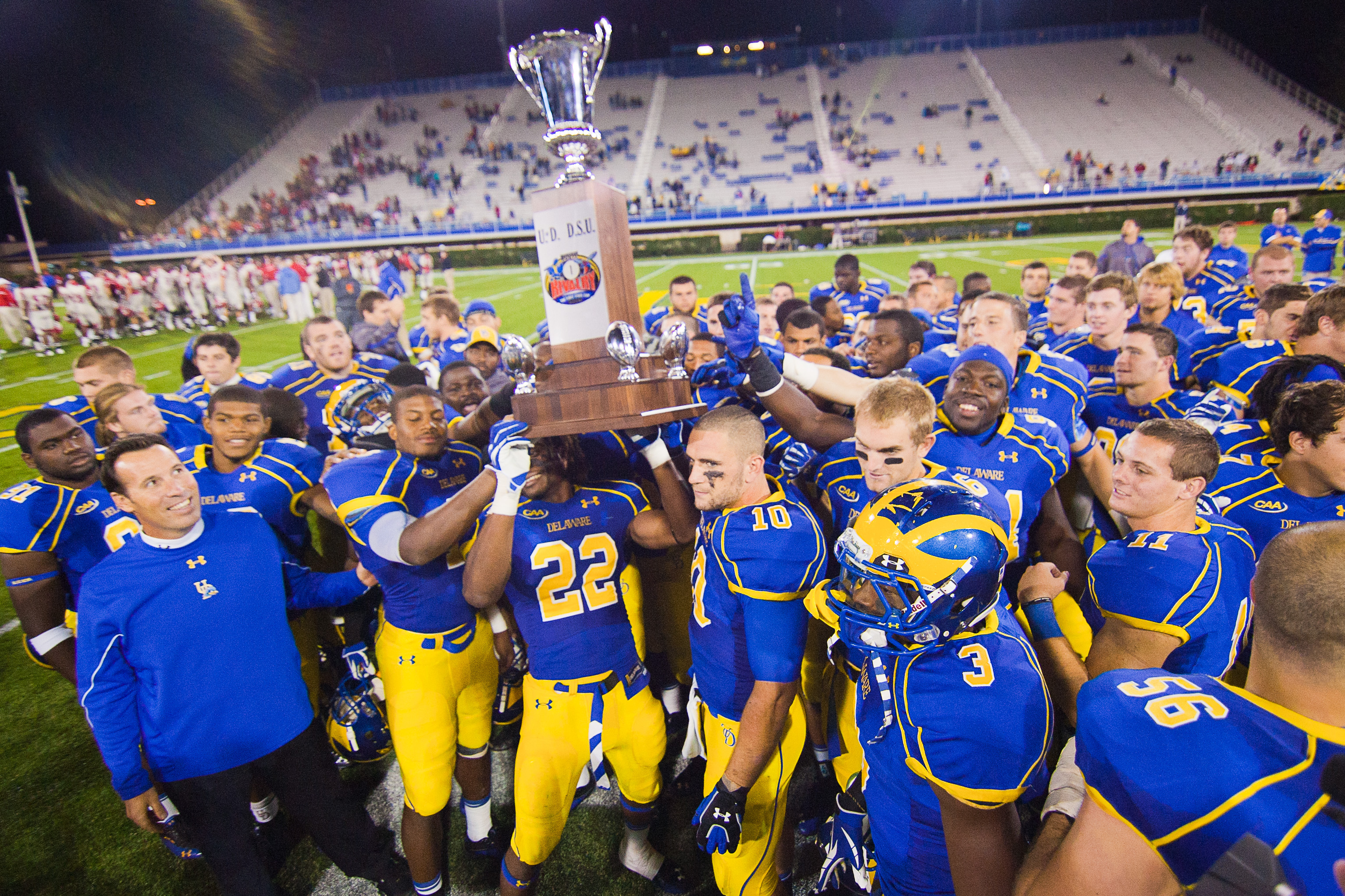 Delaware players Paul Worrilow (10), Leon Jackson (22) and Mark Schenaur (6) holds up the first state cup trophy after defeating Delaware State 45-0 Saturday Sept. 17, 2011, in Newark DE. Photo By Saquan Stimpson